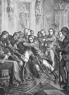 Deposition and arrest of Gustav IV Adolf, a 19th-century etching.